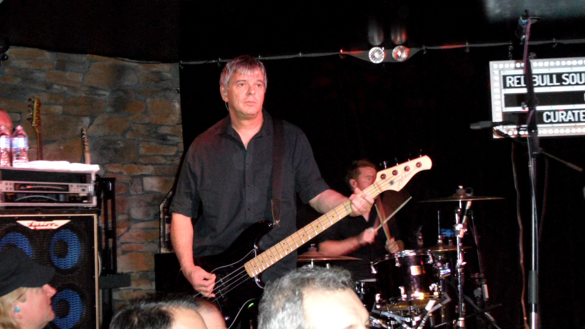 Performing with the Stranglers at the Cobra Lounge in Chicago on June 7th, 2013